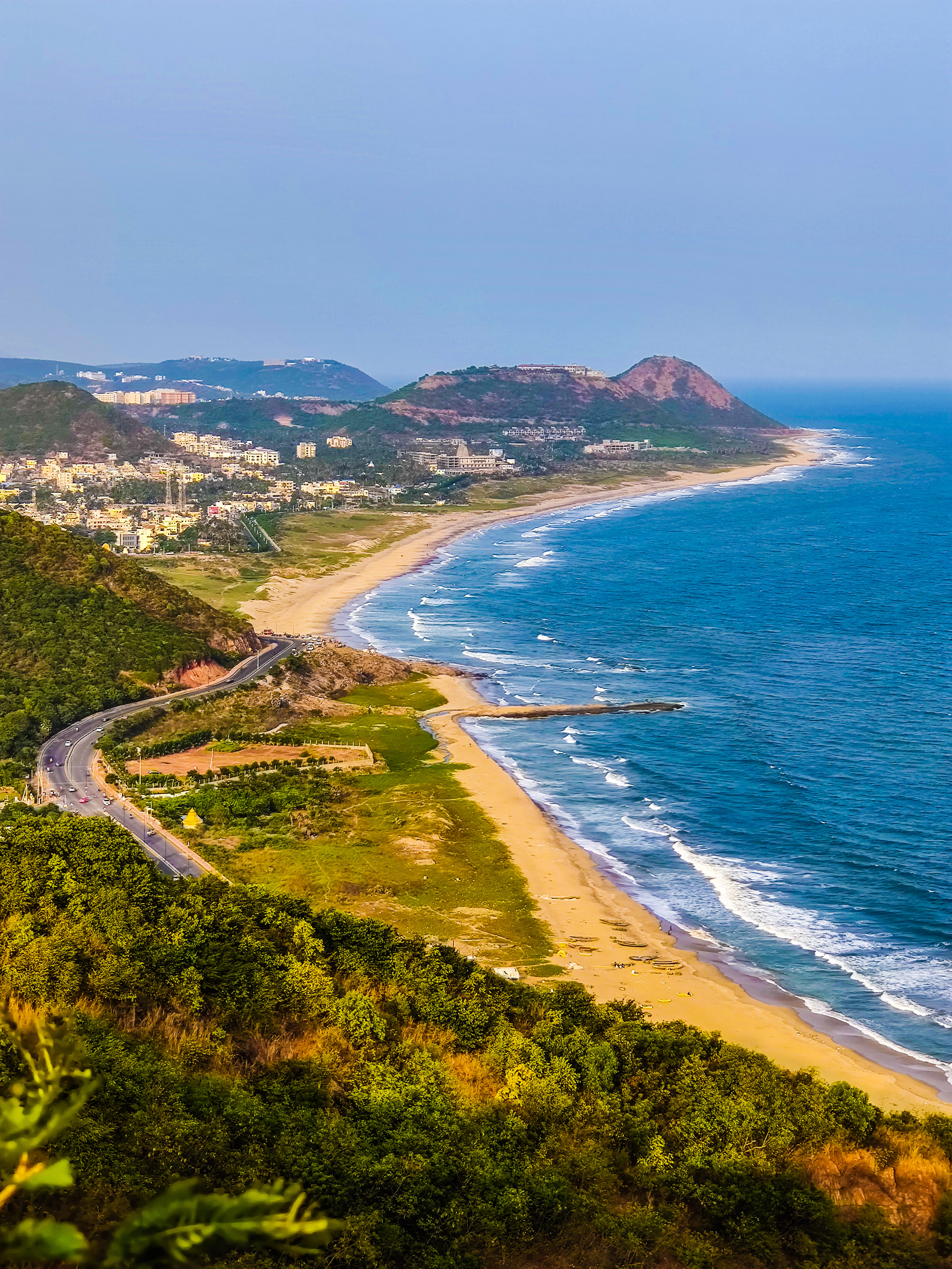 Visakhapatnam beach road and Bay of Bengal from Kailsagiri hill